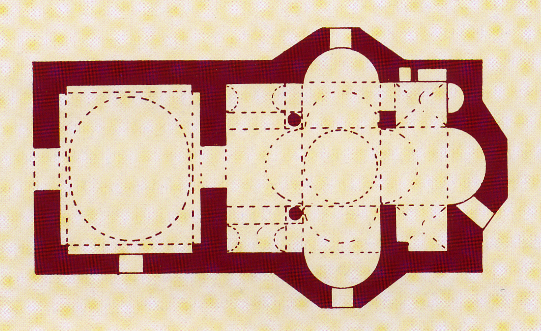 Rousanu1